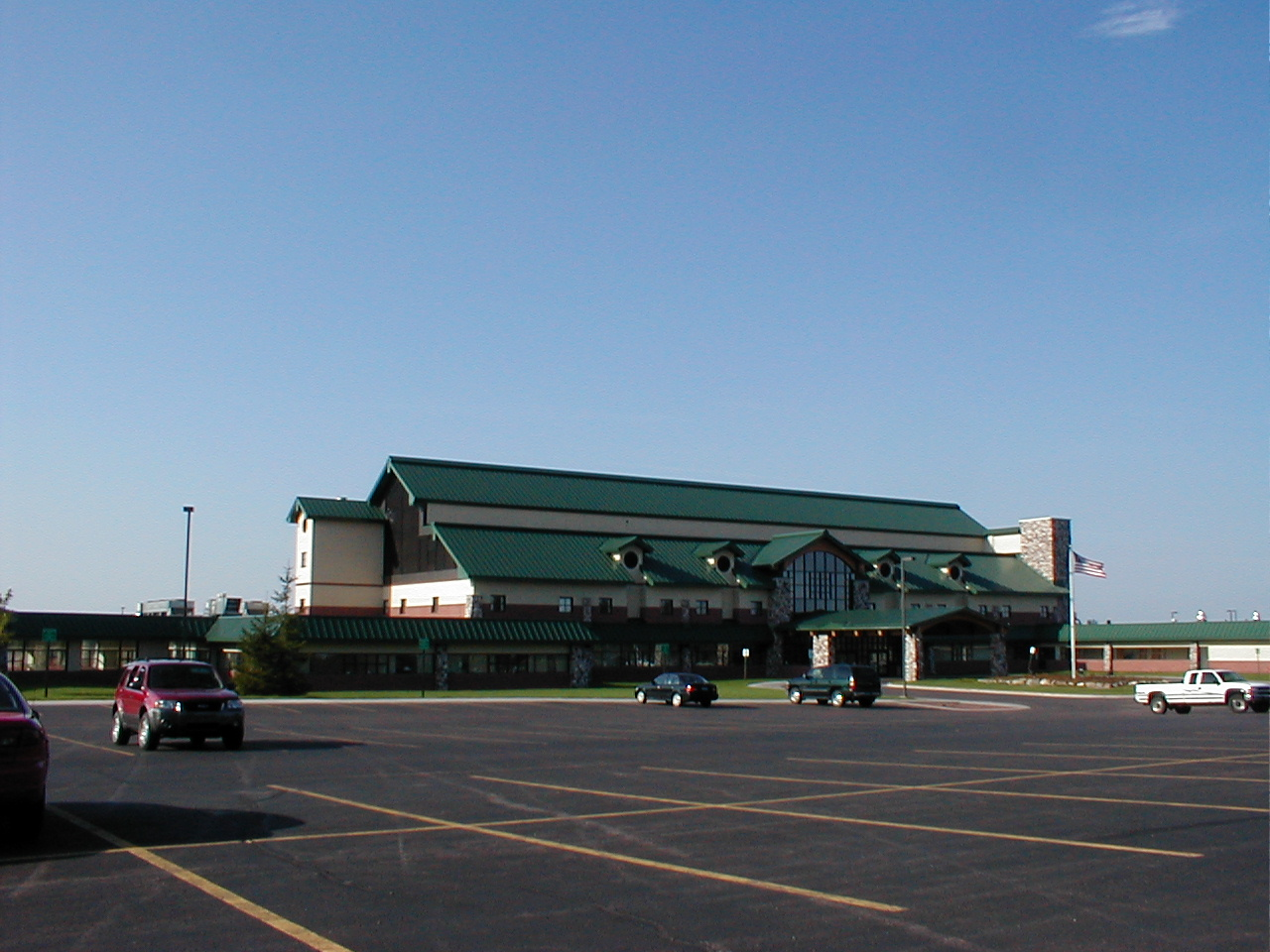 Portage Health System Hospital, Hancock, Michigan, USA. 2005. J Freeman